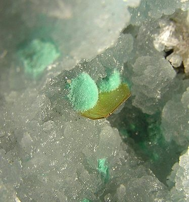 Hemimorphite, Aurichalcite, Wulfenite Locality: 79 Mine (79th Mine; Seventy-Nine Mine; Seventy-Nine property; McHur prospect), Chilito, Hayden area, Banner District, Dripping Spring Mts, Gila County, Arizona, USA (Locality at ) Size: 12.9 x 10.3 x 3.4 cm. A large combo specimen from the legendary 79 Mine - not sure if this is old material or a specimen from the trickle of new stuff from the past few years from re-mining efforts there. What you have is a layer of hemimorphite with a delicate pale blue color from zinc content (which gives Kelly Mine smithsonite a similar hue), and on top of this, little puffballs of blue-green aurichalcite. A little wulfenite crystal can be seen in the close-up!